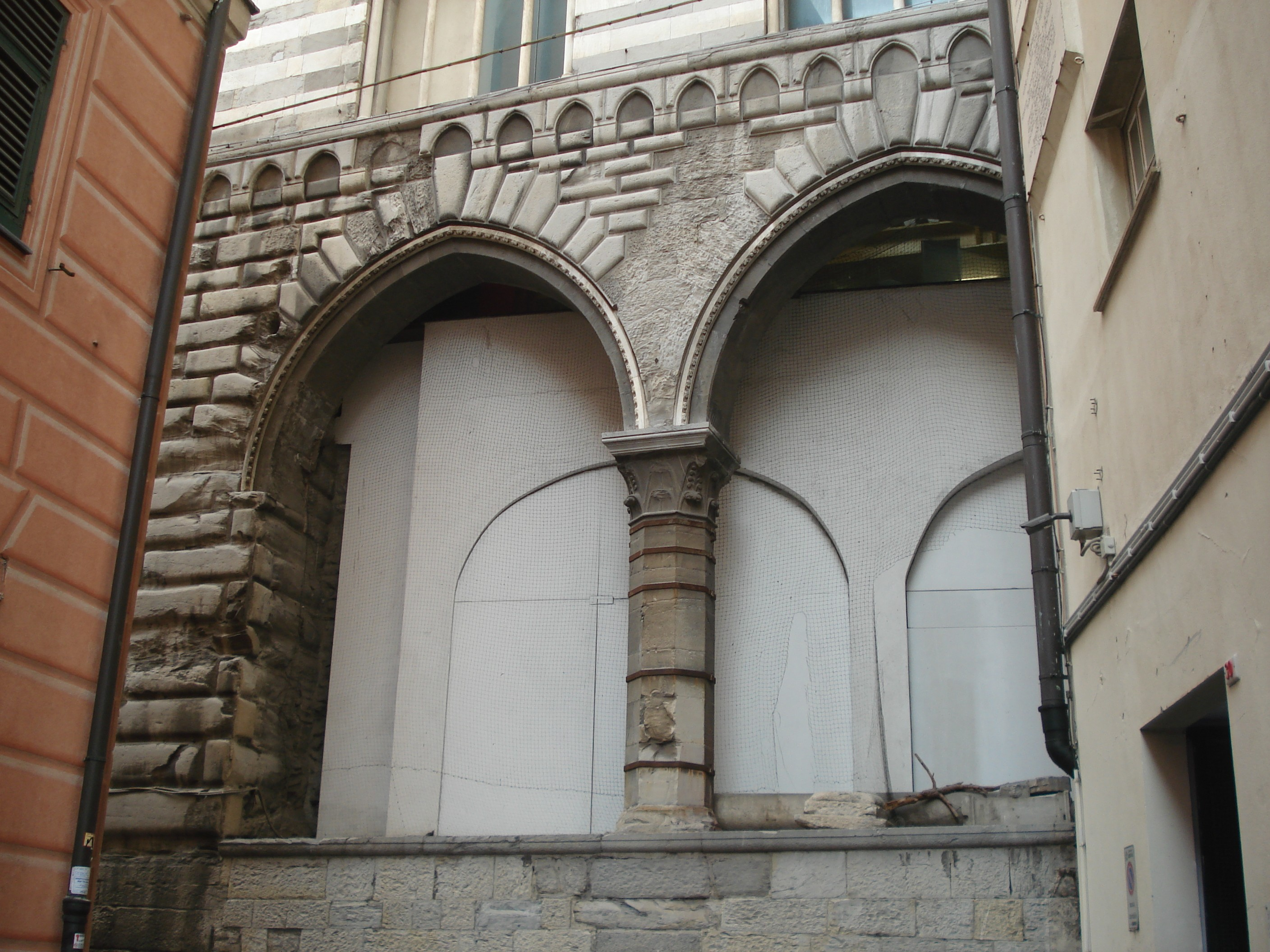 Medieval loggia of Doge's Palace in Genoa